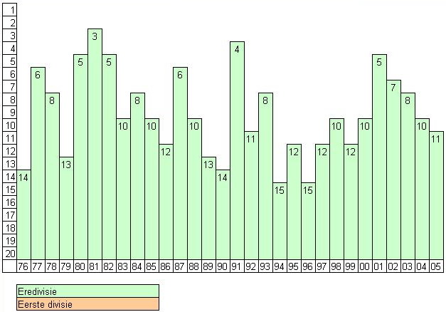 Dutch league positions of Utrecht, last 30 seasons FCU Laatste seizoen 6e